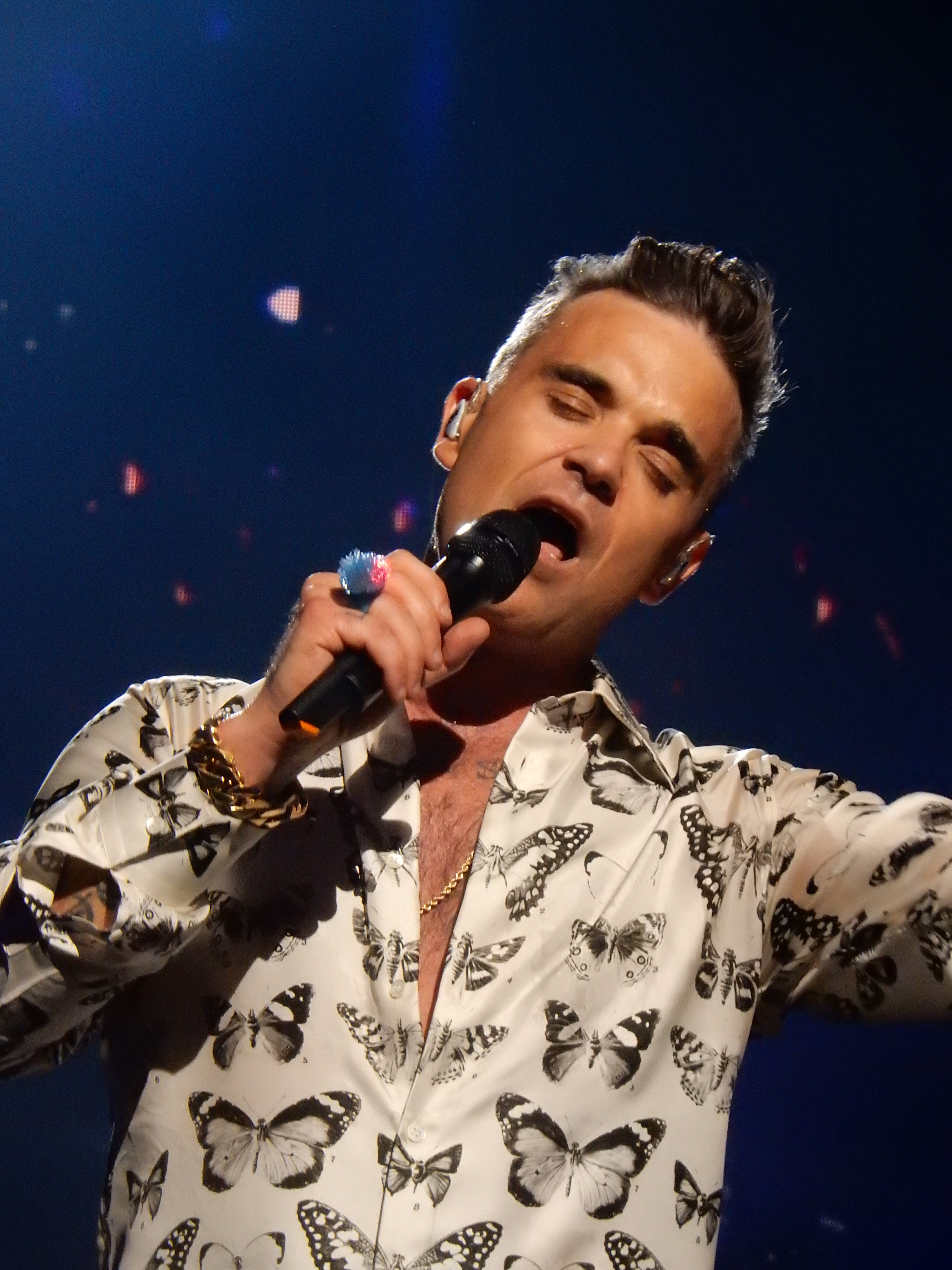 Robbie Williams, Roundhouse, London (Apple Music Festival)